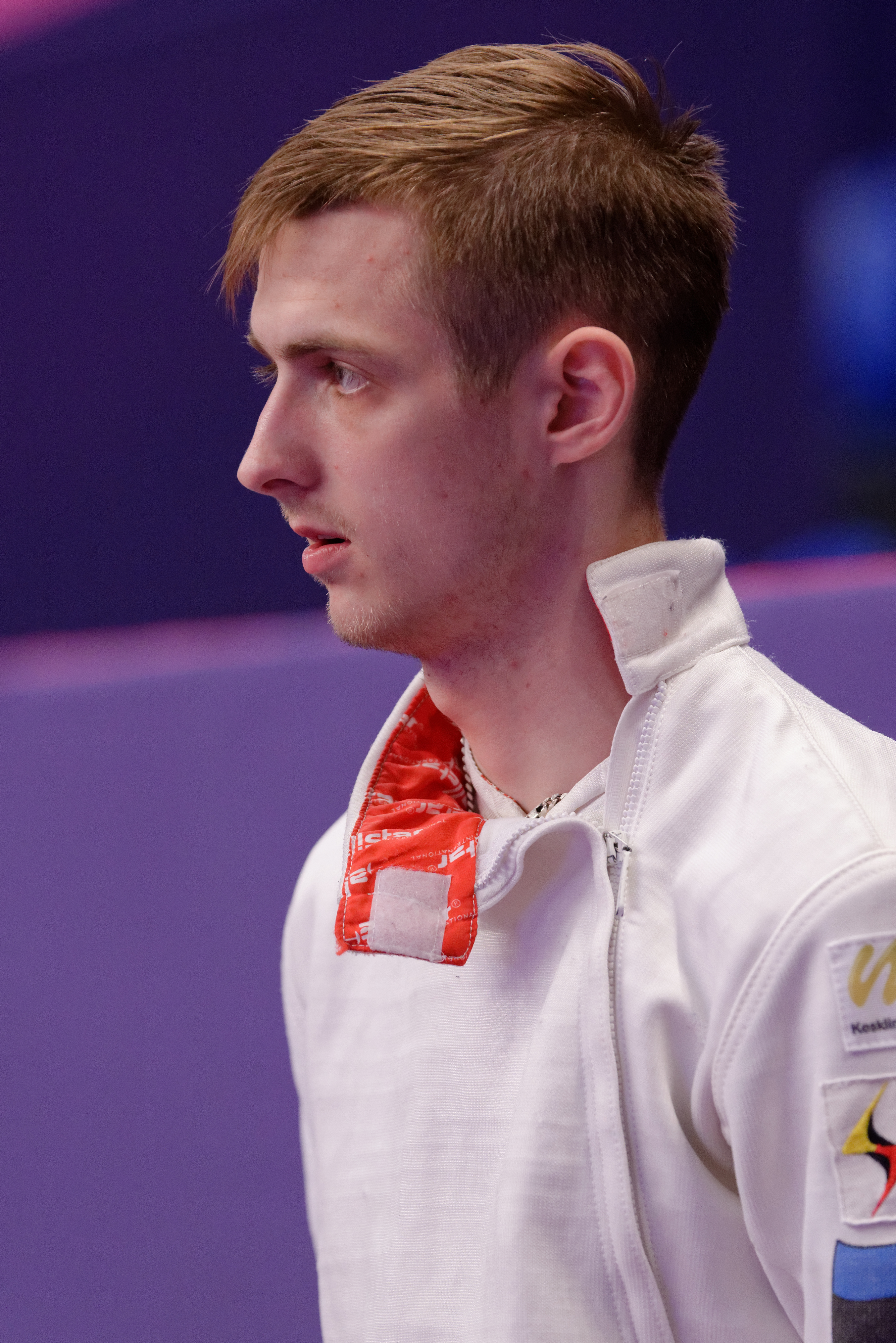 Estonia's Peeter Turnau at the Challenge SNCF Réseau-Trophée Monal 2015, a stage of the men's épée World Cup.